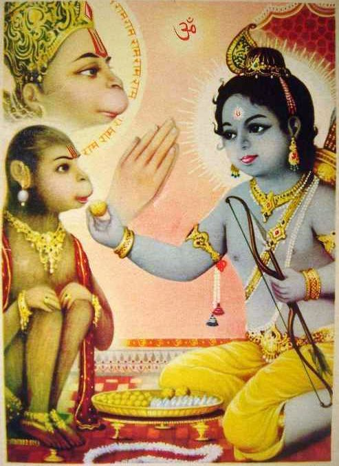 INDIA Old Art Print RAMA FEEDS HANUMAN